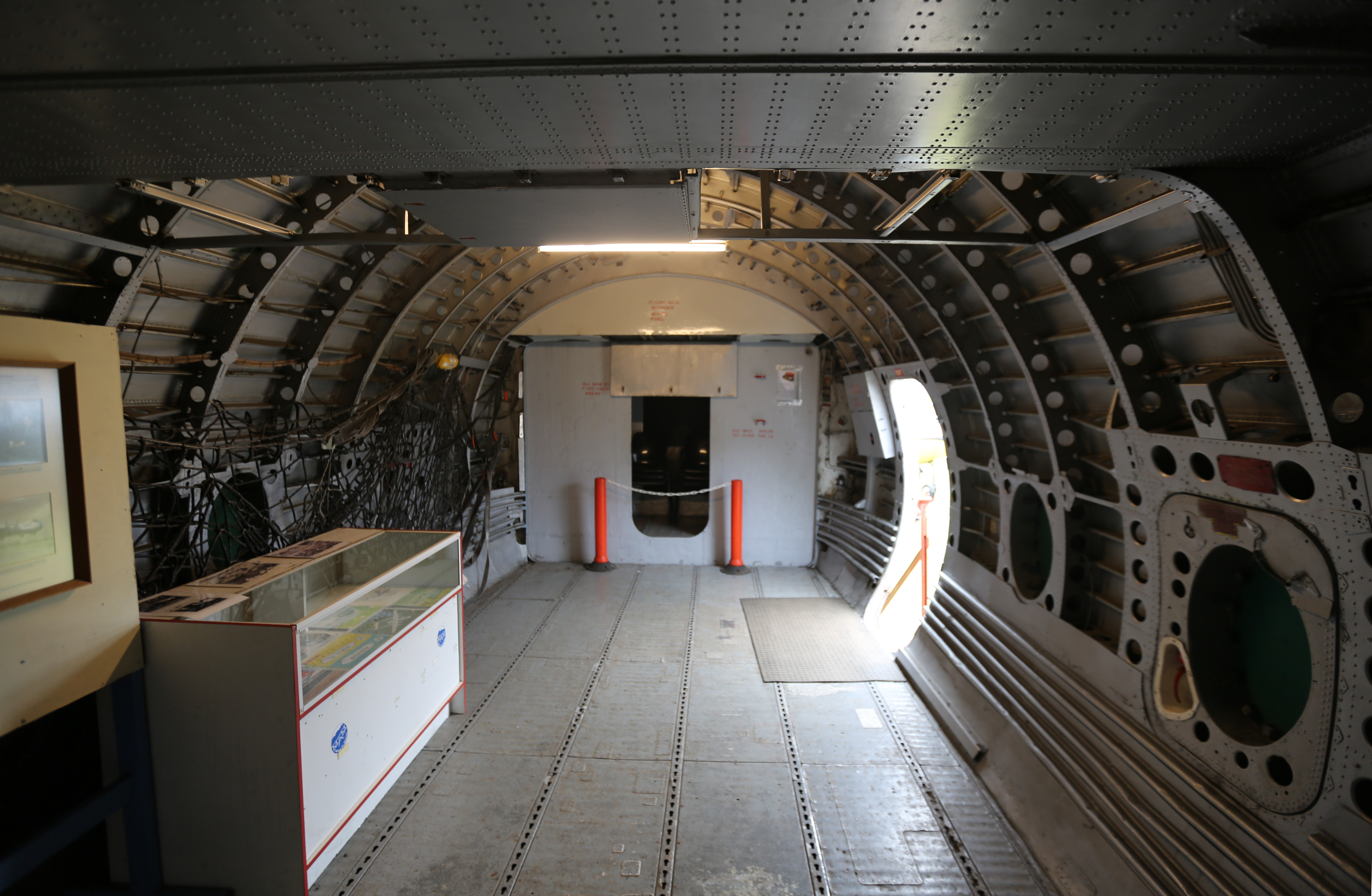 Photo of part of the the interior of a Armstrong Whitworth AW.650 Argosy at the Midland Air Museum